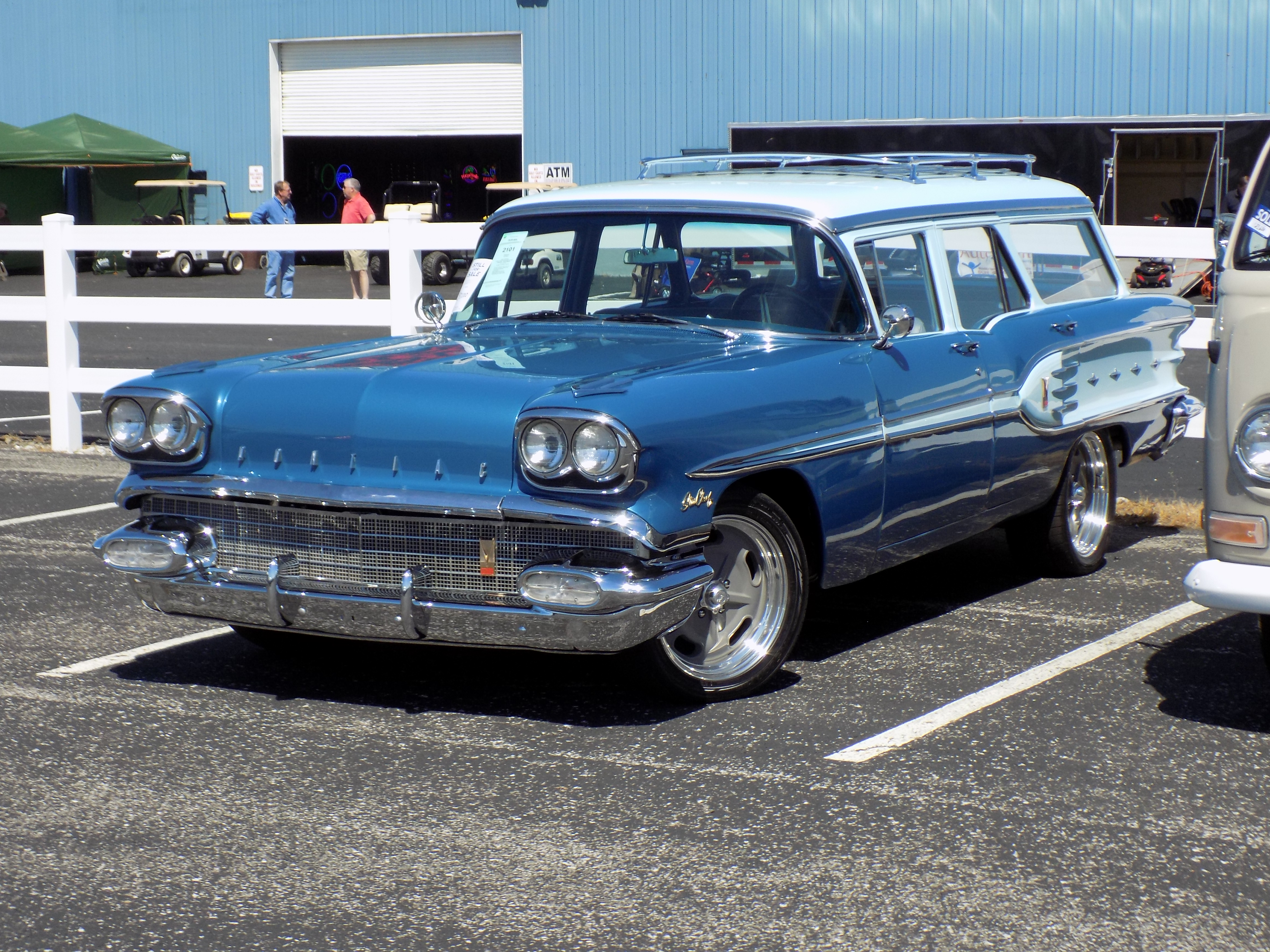 Auburn Spring RM Sotheby's Auctions America Auburn Auction Park Auburn, Indiana May 2017 Click here for more car pictures at my Flickr site. Or here for my Car Crazy Tumblr site. Or on Twitter @DVS1mn.